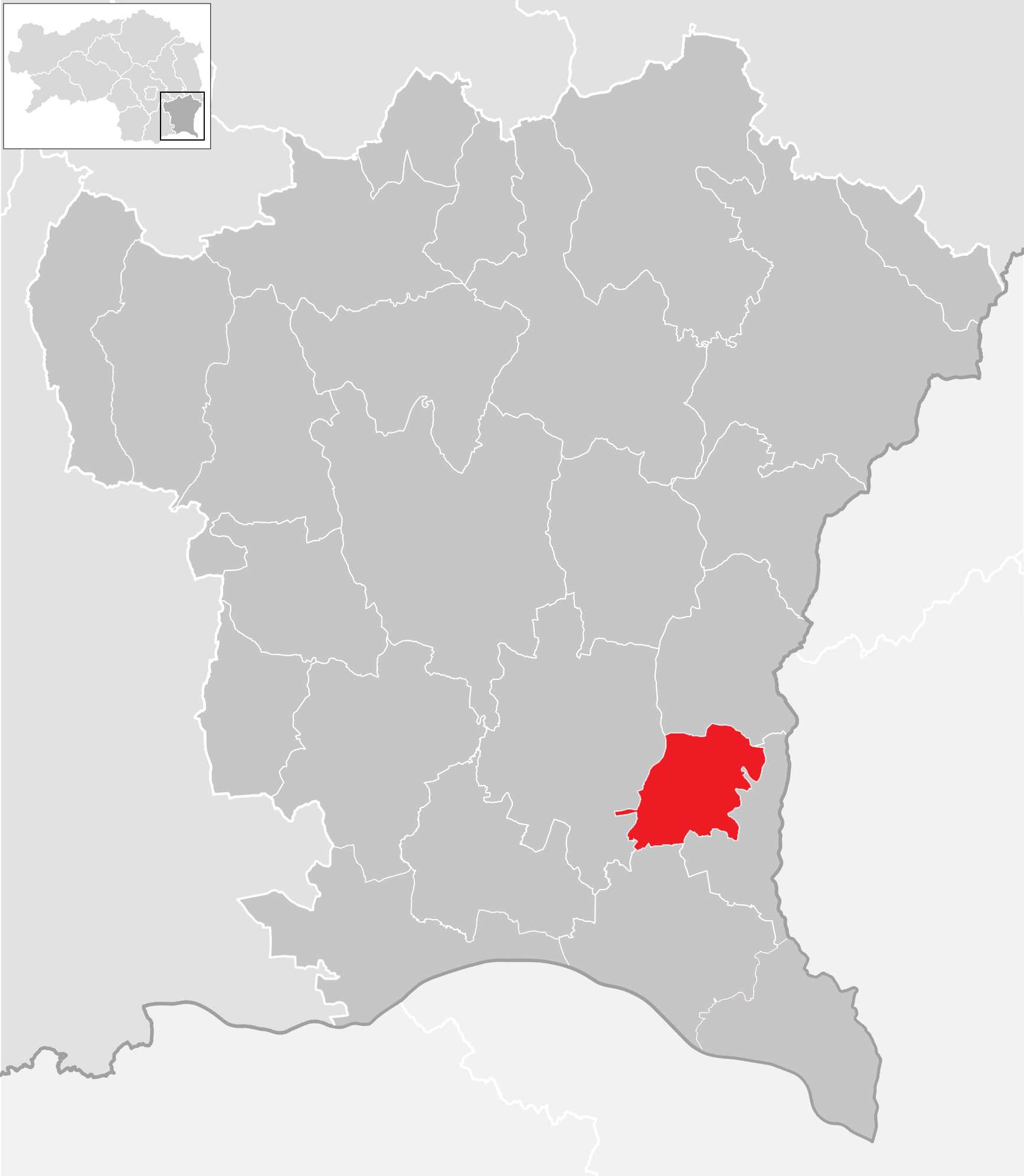 district Südoststeiermark